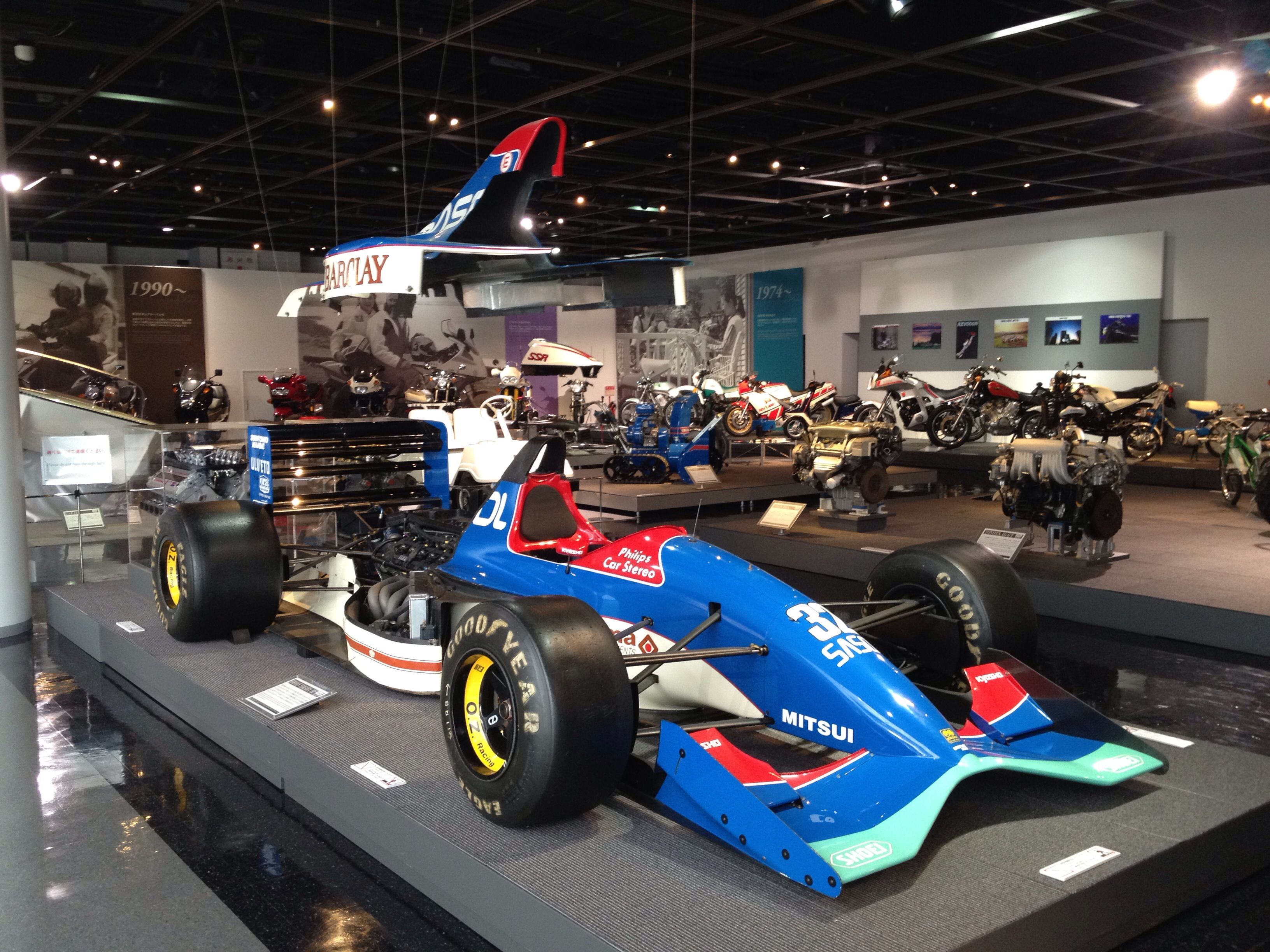 The Jordan 192 exposed at the Yamaha Communication Plaza